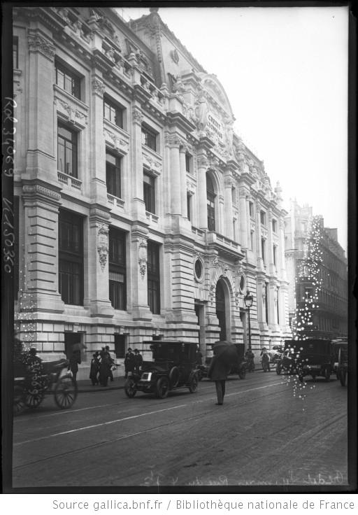 LCL (Credit Lyonnais) headquarters in Paris. Rue du Quatre-septembre, circa 1910.